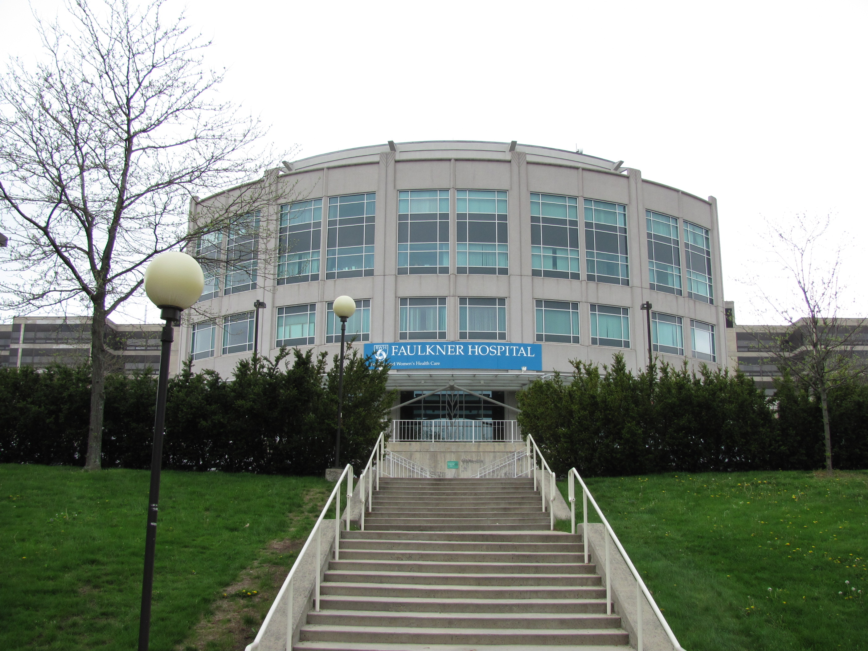 Faulkner Hospital, Jamaica Plain Massachusetts